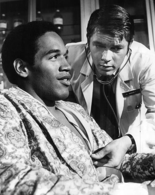 Photo of Chad Everett as Joe Gannon and guest star O.J. Simpson from the television program Medical Center.